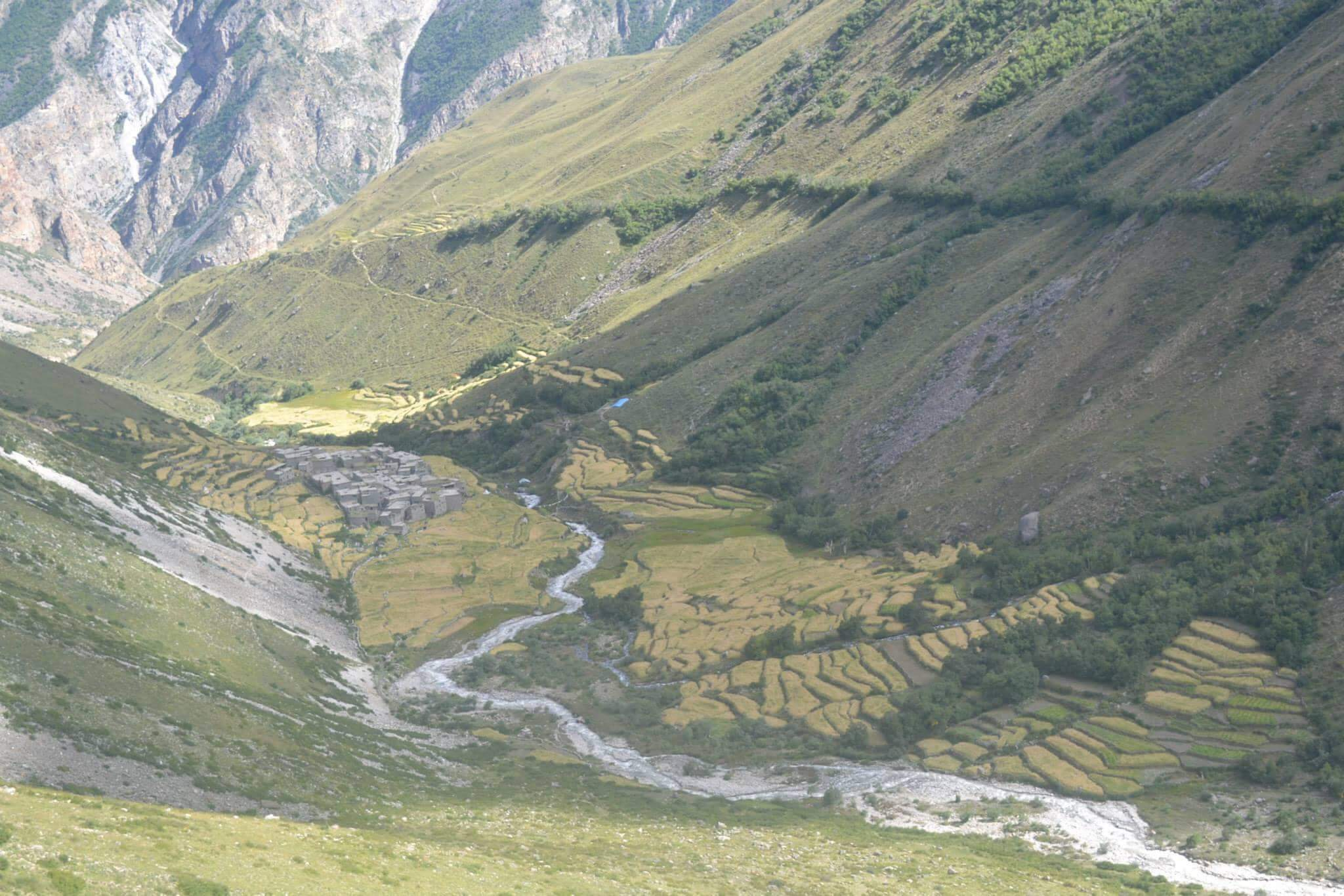 tila from opposite hill